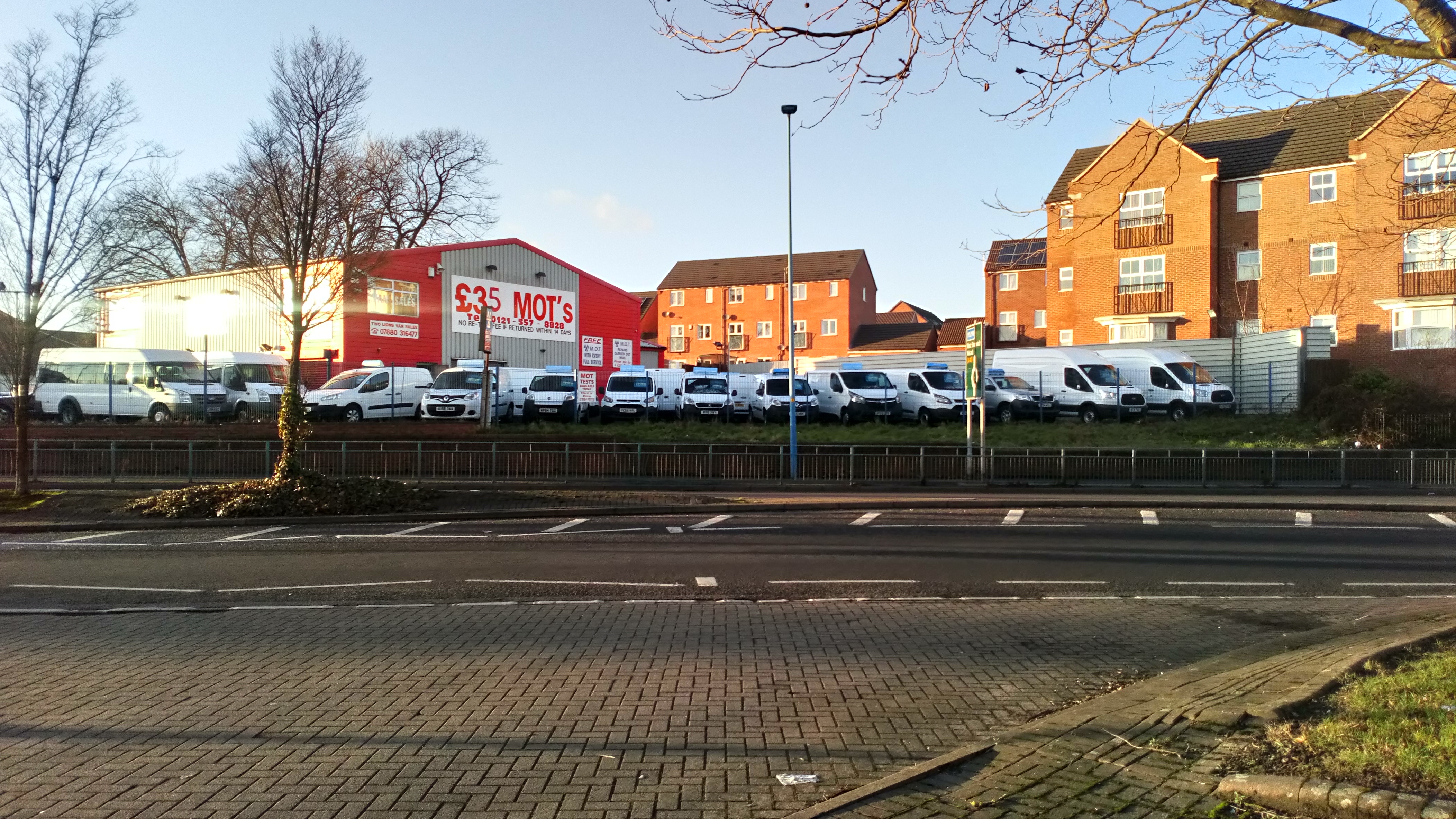 Update.